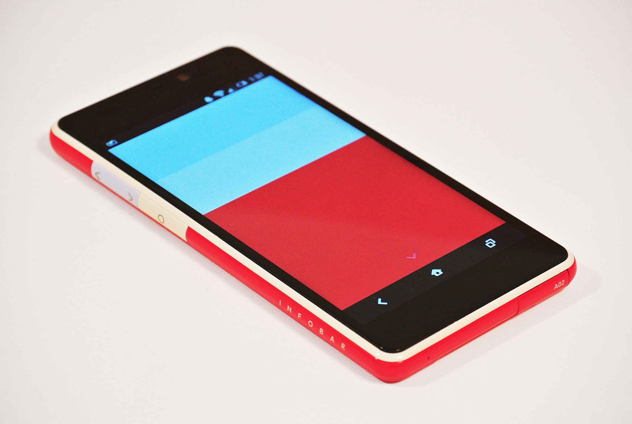 INFOBAR A02 by iidaのカラーのひとつ、NISHIKIGOI